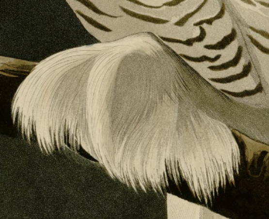 This image is a detailed and enlarged image of Audubons engraving, Snowy Oil. The original piece is life-sized. This image shows the details of the etching of the owl's foot. Title Snowy Owl. Plate CXXI (121) Creator Audubon, John James, 1785-1851. Contributor Havell, Robert, 1793-1878. Date 1831-1834 Identifier aud0121 Description Snowy Owl, Strix nyctea. Linn, Male, I. Female, 2. J WHATMAN TURKEY MILL 1833 Extent 37.5 x 25.25 Place of Publication London Type still image Subject Birds--North America Birds--Pictorial works Source The Birds of America, Vols. I-IV, 1827-1838 Special Collections, University Library System, University of Pittsburgh. Collection Audubon's Birds of America Darlington Digital Library Contributor University of Pittsburgh Rights Information